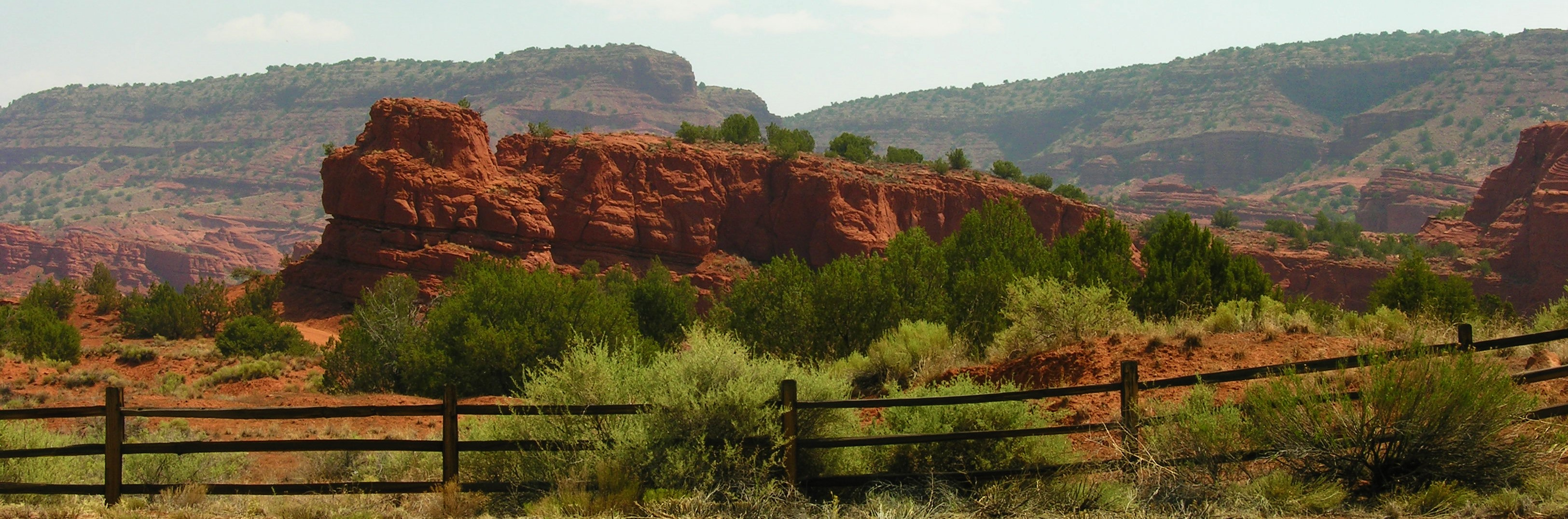 The Red Rocks in Jemez Valley, New Mexico